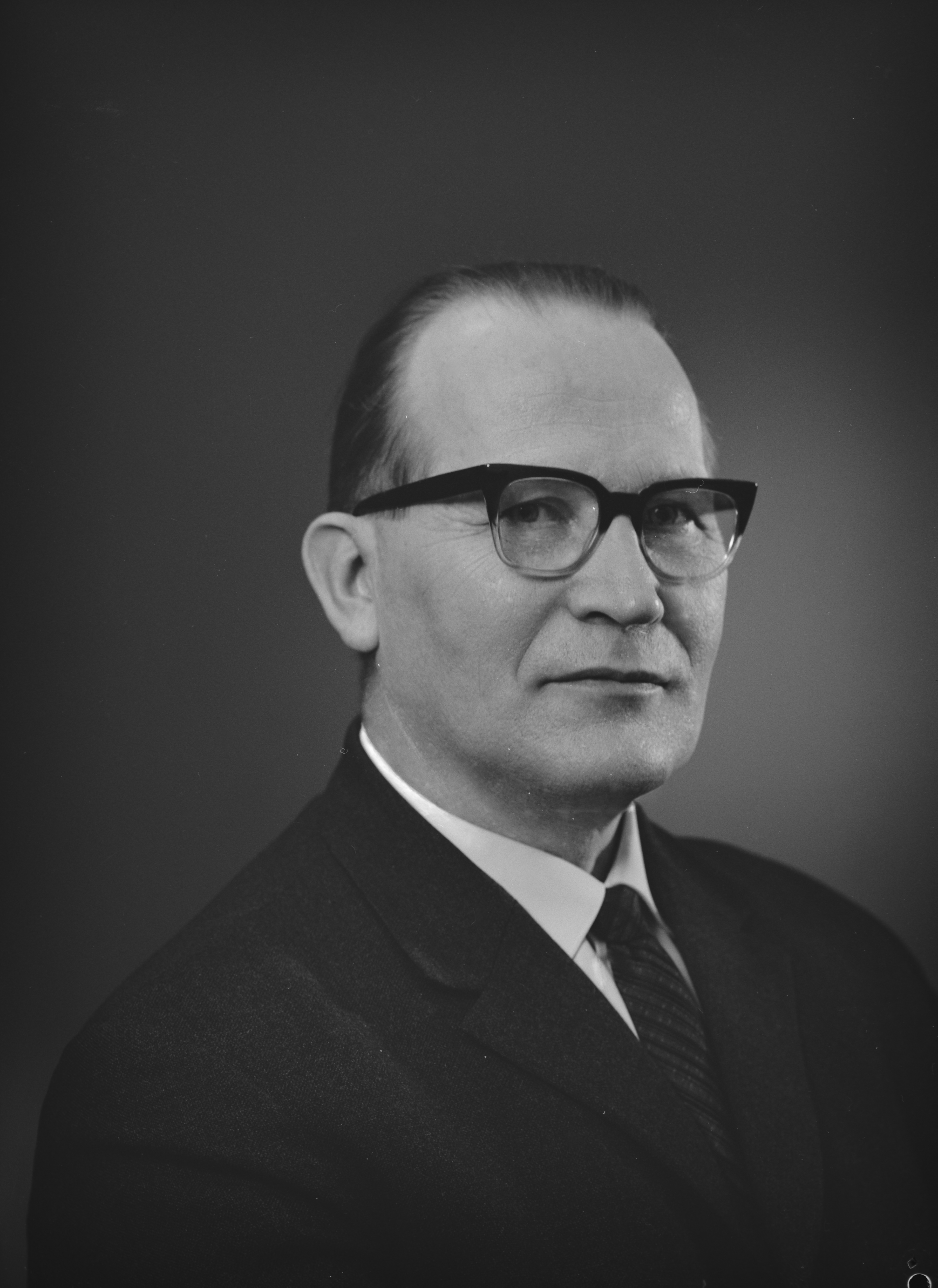 Photograph of the Finnish physicist and politician Aarno Niini (1905–1972).